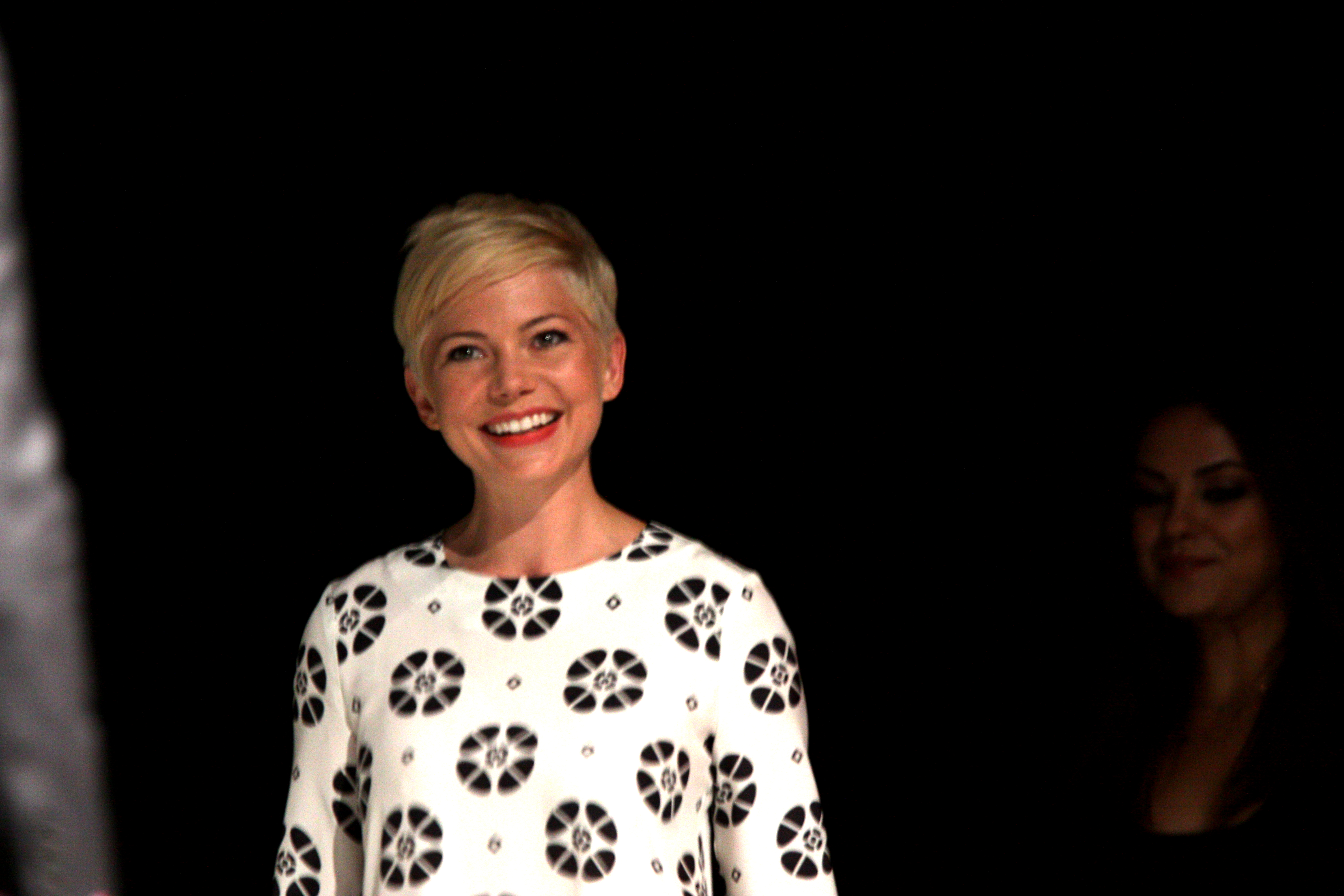 Michelle Williams & Mila Kunis speaking at the 2012 San Diego Comic-Con International in San Diego, California.